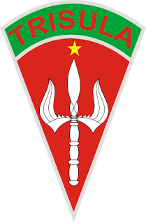 18th Airborne Infantry Brigade SSI